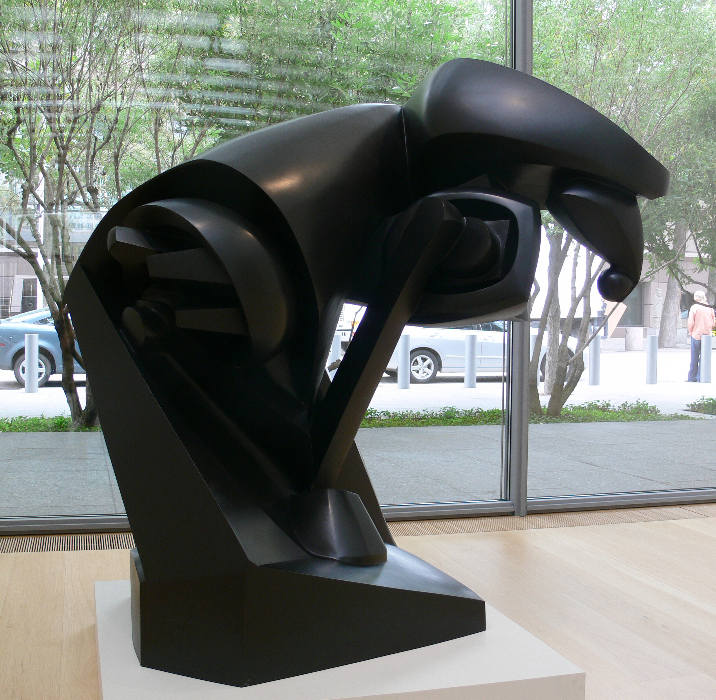 Raymond Duchamp-Villon: Le cheval majeur (Large Horse), 1914 (enlargement: 1966); Nasher Sculpture Center, Dallas, Texas (Raymond and Patsy Nasher Collection, acquired in 1980)